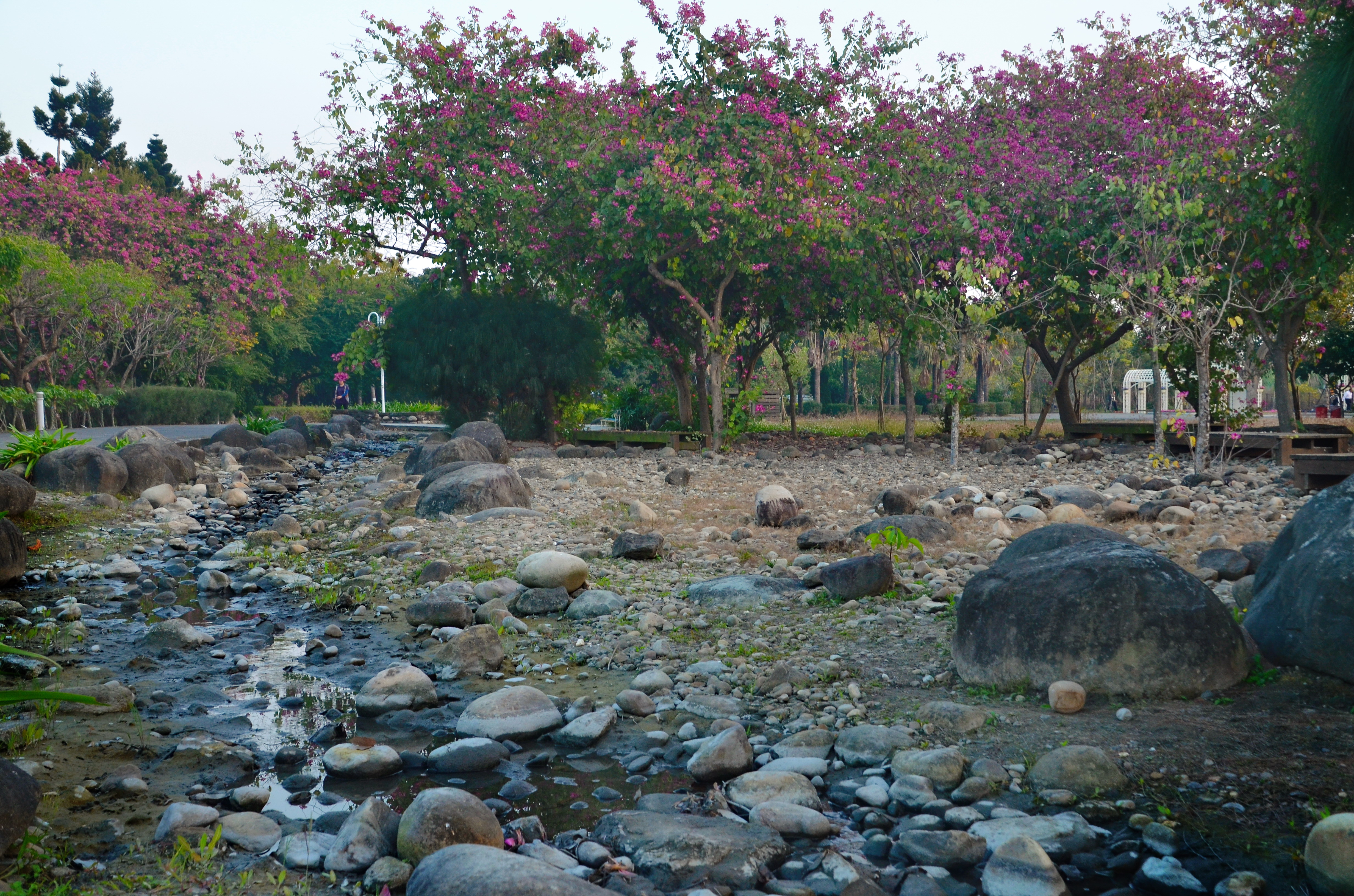 Changhua Fitzroy Gardens, Changhua County, Taiwan.